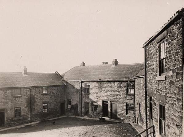 Sheriff Hill Lunatic Asylum as photographed many years ago. The actual date is unknown. You can clearly see the square design of the asylum, enclosed on all sides. Evidence states that at least two people escaped the asylum during its period of operation (1800-1860 approx)